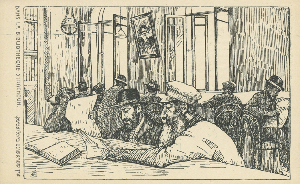 "In the Strashun Library": a postcard from the "Vilner yidishe geto" (Vilnius Jewish Ghetto) series - ten postcards with illustrations by Ber Zalkind and background inscriptions by Khaykl Lunski (on the back; does not show here). Vilnius: Kunst, 1922/1923.